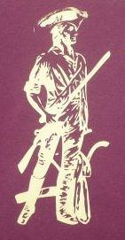 Constitution Party of West Virginia symbol and colors